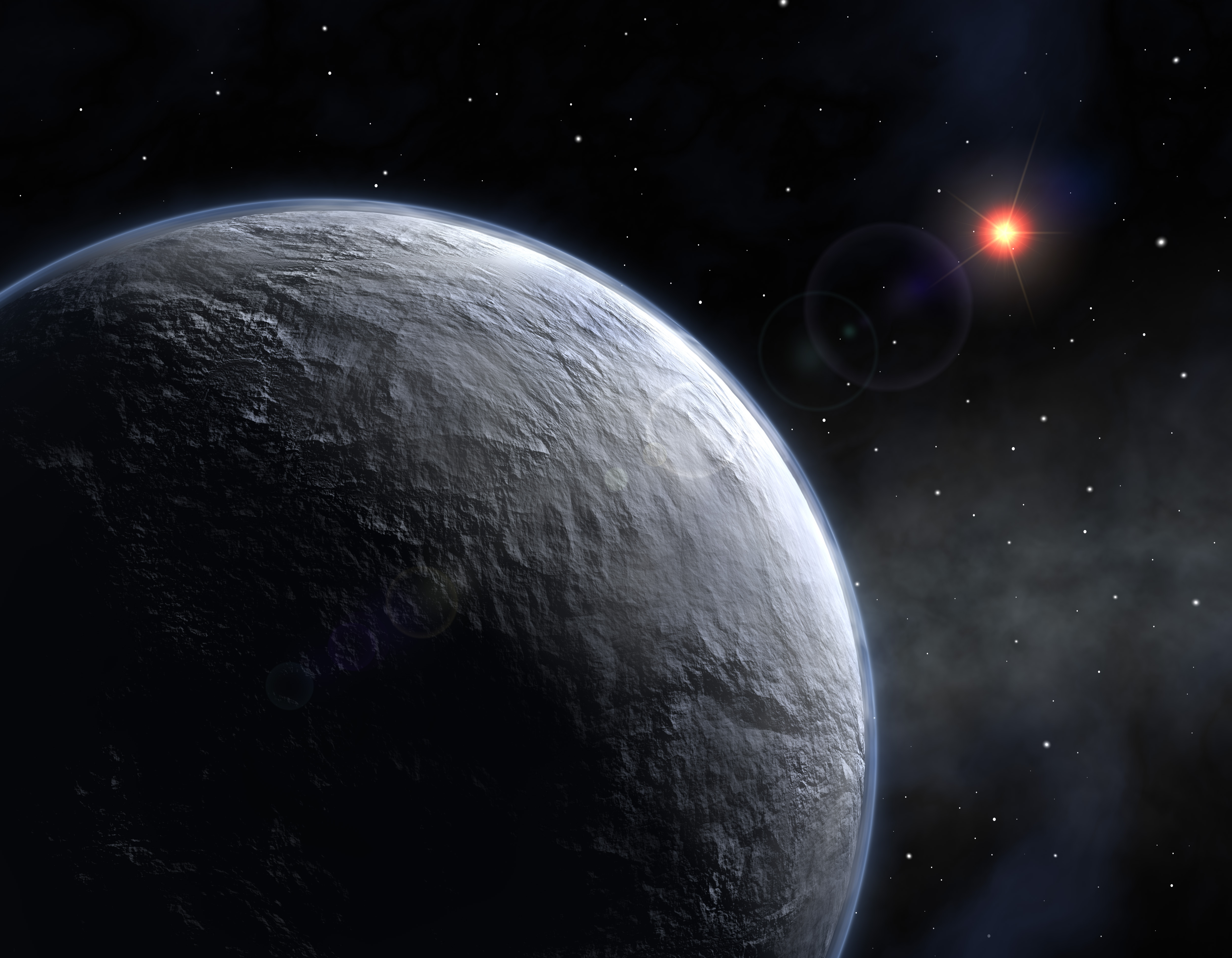 Using a network of telescopes scattered across the globe, including the Danish 1.5-m telescope at ESO La Silla (Chile), astronomers discovered a new extrasolar planet significantly more Earth-like than any other planet found so far. The planet, which is only about 5 times as massive as the Earth, circles its parent star in about 10 years. It is the least massive exoplanet around an ordinary star detected so far and also the coolest. The planet most certainly has a rocky/icy surface. Its discovery marks a groundbreaking result in the search for planets that support life.